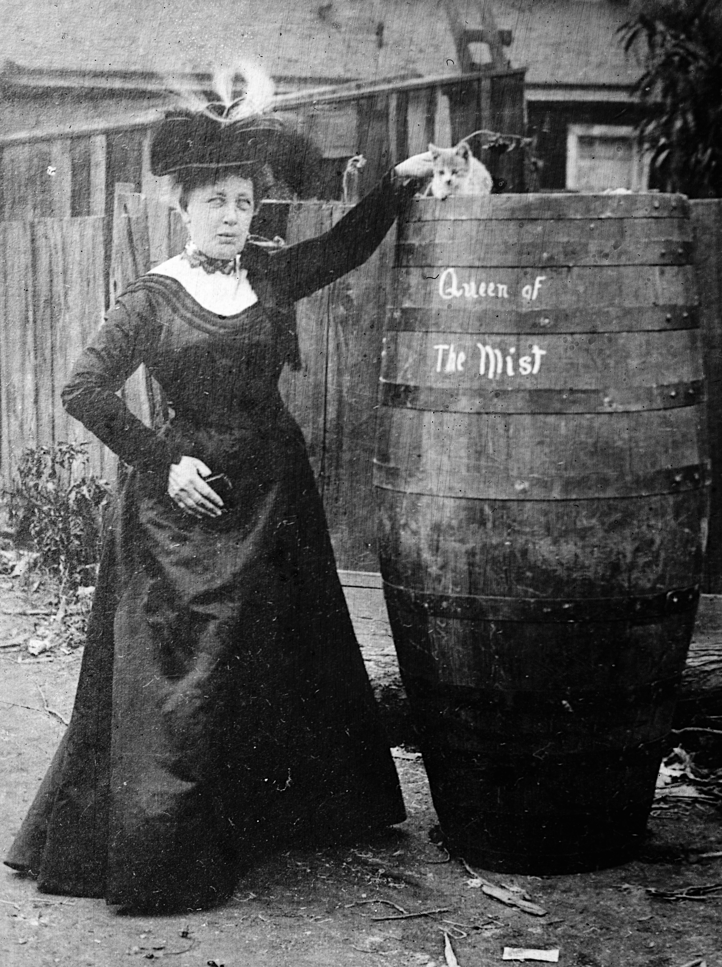 Annie Edson Taylor, first person to go over Niagara Falls in a barrel and survive (cat in photo is likely the same cat that went over the falls in a test run). TITLE: Mrs. Anna Edson standing next to huge barrel upon which is written "Queen of the Mist" and upon which is sitting a cat CALL NUMBER: LC-B2- 1119-13[P&P] REPRODUCTION NUMBER: LC-DIG-ggbain-05575 (digital file from original neg.) RIGHTS INFORMATION: No known restrictions on publication. MEDIUM: 1 negative : glass ; 5 x 7 in. or smaller. CREATED/PUBLISHED: [no date recorded on caption card] CREATOR: Bain News Service, publisher. NOTES: Forms part of: George Grantham Bain Collection (Library of Congress). Title from unverified data provided by the Bain News Service on the negatives or caption cards. General information about the Bain Collection is available at